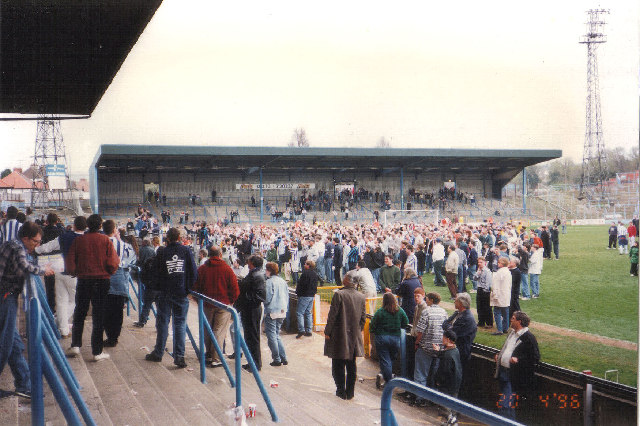 Hove: The Goldstone Ground. The home of Brighton and Hove Albion FC for 95 years from 1902 to 1997, the Goldstone was sold in 1997 by the then board of directors for a retail re-development of the site with no plans for an alternative stadium in Sussex for the club being in place. The Goldstone was unique in being the only Football League ground in Sussex and was a much-loved asset, having been visited by countless thousands of football fans down the years. In 1997 the pitch was ripped up and the stands and buildings demolished to be replaced by yet another bland cheerless and characterless retail park. This view was taken looking towards the North Stand after what was going to be the club's last but one home game, against Carlisle United, in 1996. In the event the club were subsequently allowed to stay on for another season, but the picture shows the weight of feeling at the time with numerous supporters demonstrating against the proposed closure, and venting their anger at the directors' box. After more than 8 years of a fragile, precarious, and peripatetic existence, planning permission for a new 23,000 seater community stadium at Falmer on the north eastern outskirts of Brighton was finally granted in October 2005, and it is hoped that the club will be able to play its first game there at the start of the 2008/09 season. Currently the club's home is the totally unsuitable Withdean Stadium, with its limited crowd capacity, open and exposed temporary stand seating, and Portakabin offices and facilities. See Simon's 45456